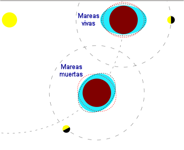 Position of Sun, earth and moon for spring and neap tides. 2007